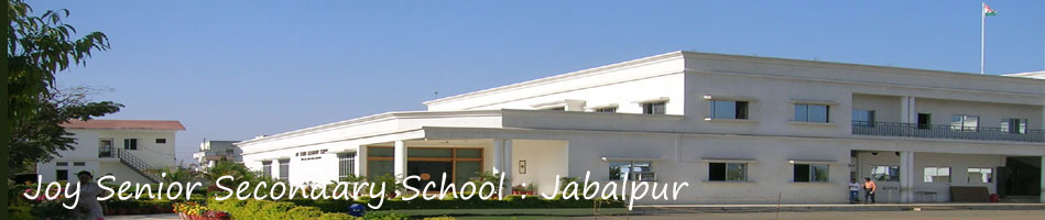 This is taken by me for Joy Senior Secondary School